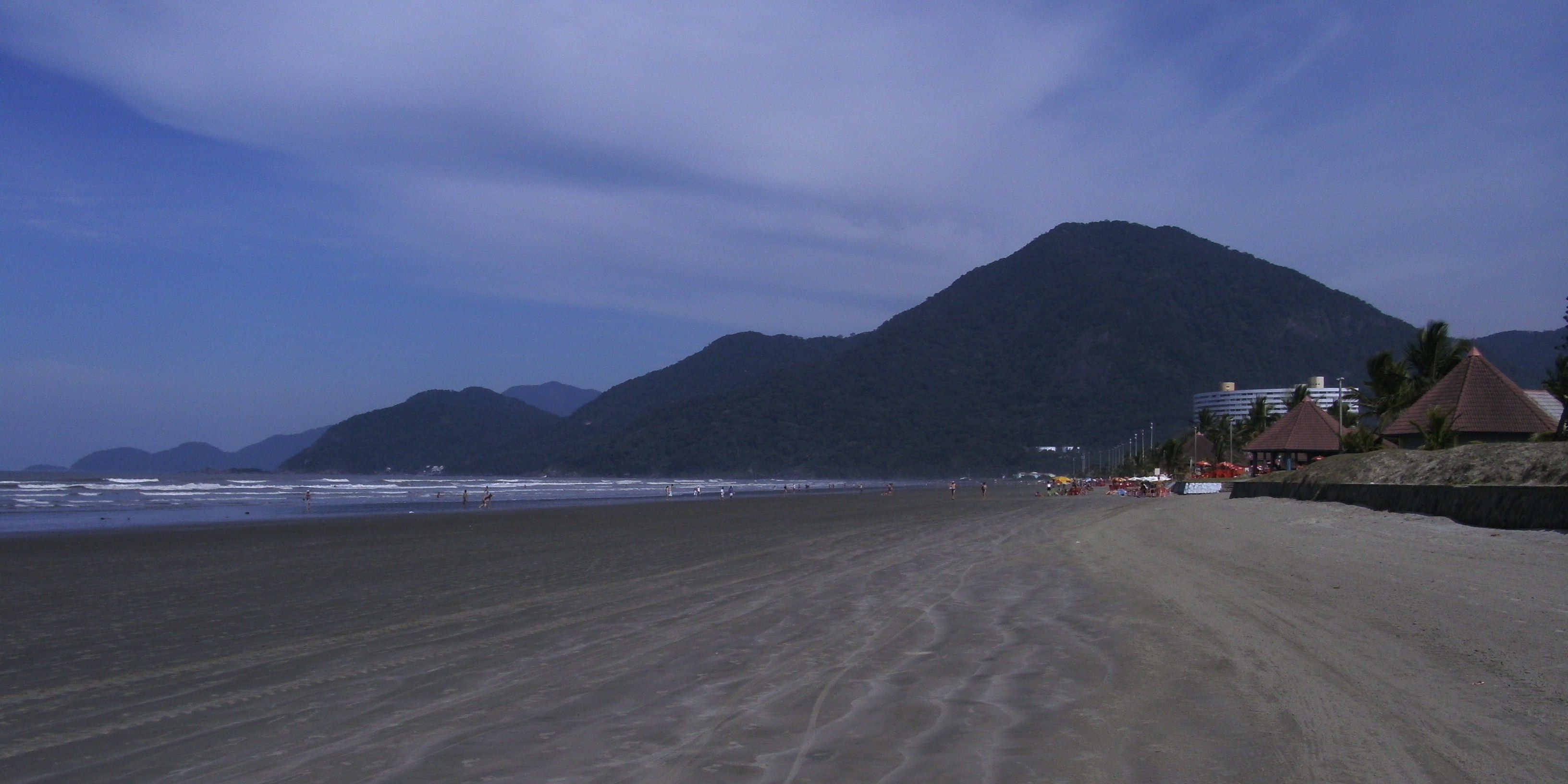 Peruíbe beach at July 2010